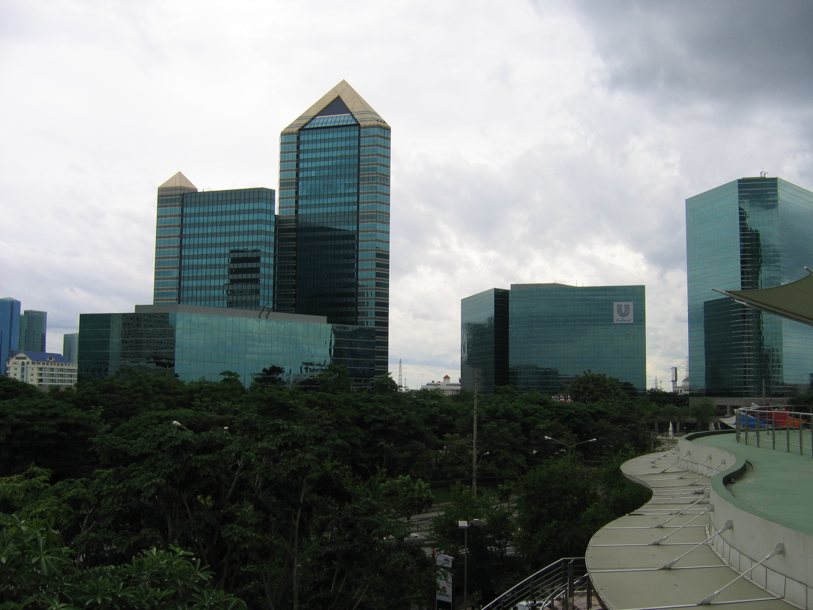 SCB Park Plaza in July, Bangkok, Thailand. HQ of Siam Commercial Bank, Chevron Thailand, Unilever Thailand, Fuji Thailand etc. etc.